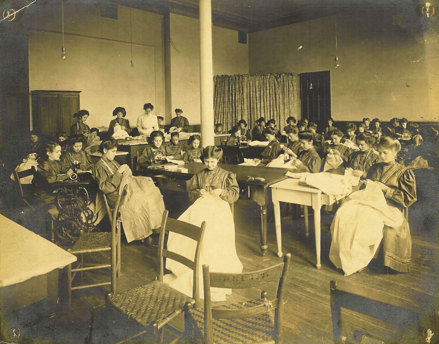 Women working at Miller School of Albemarle